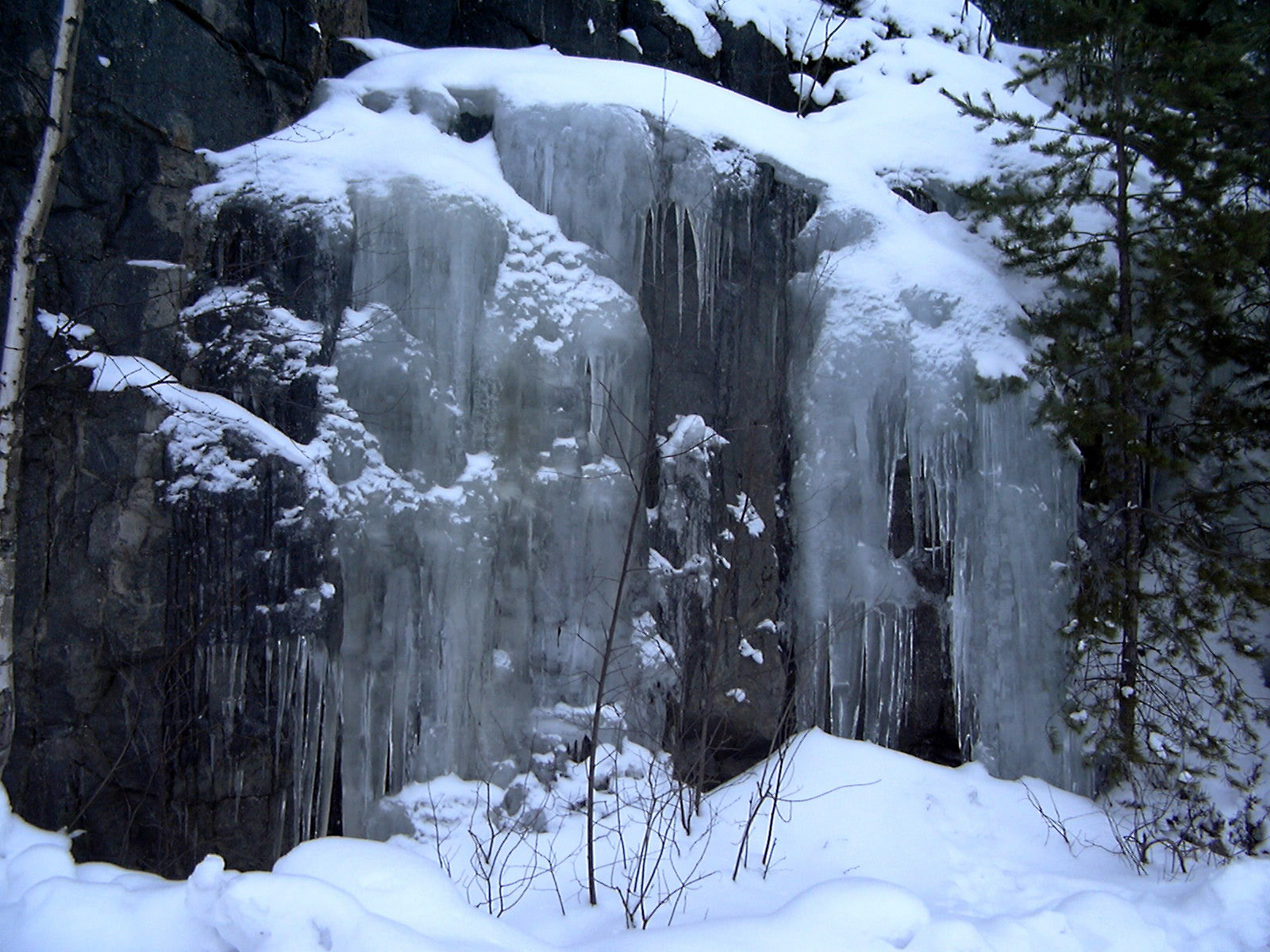 An icefall at Savonlinna, Finland.